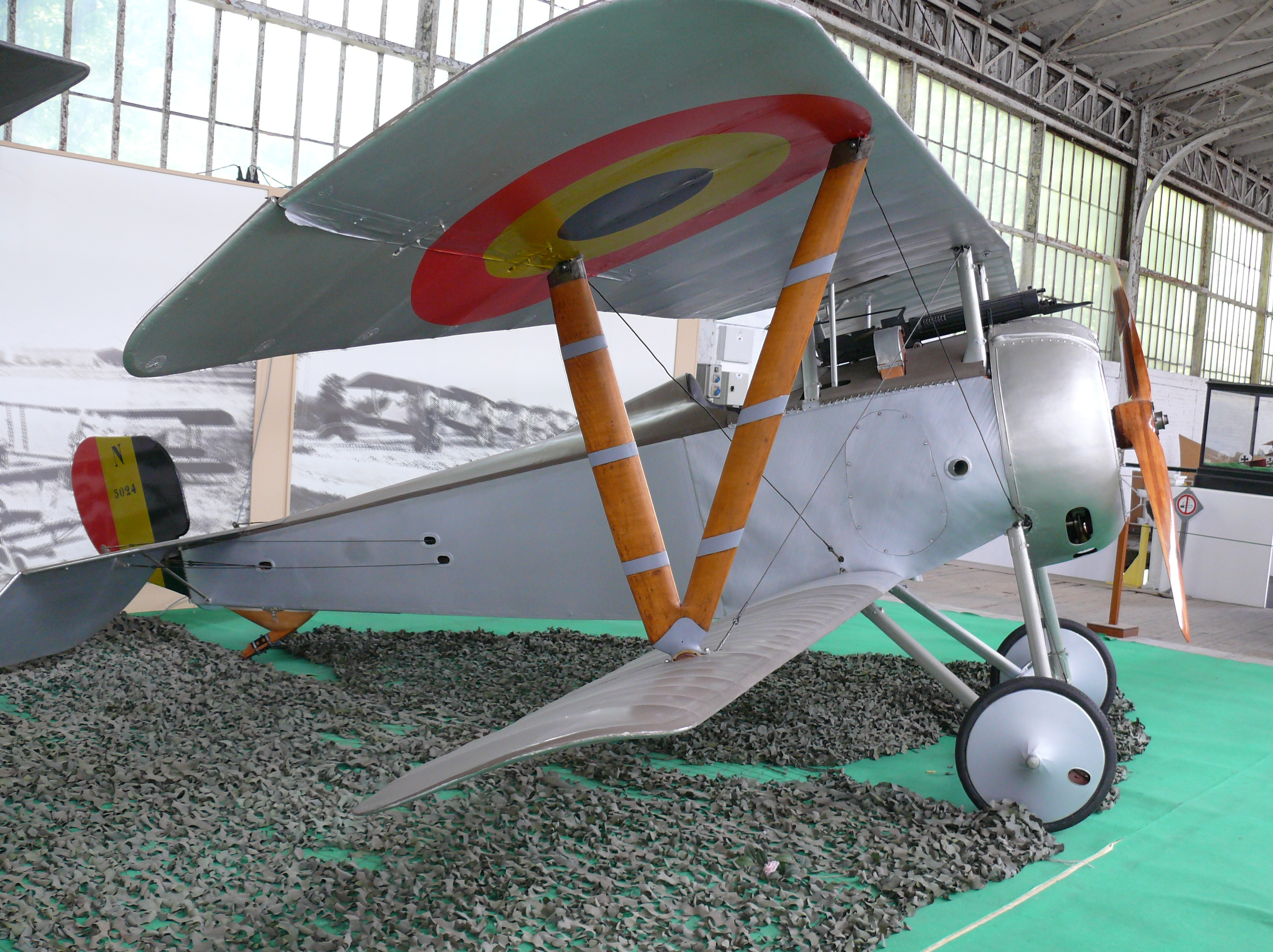 Nieuport 23 N5024 in the Royal Military Museum at the Jubelpark, Brussels.